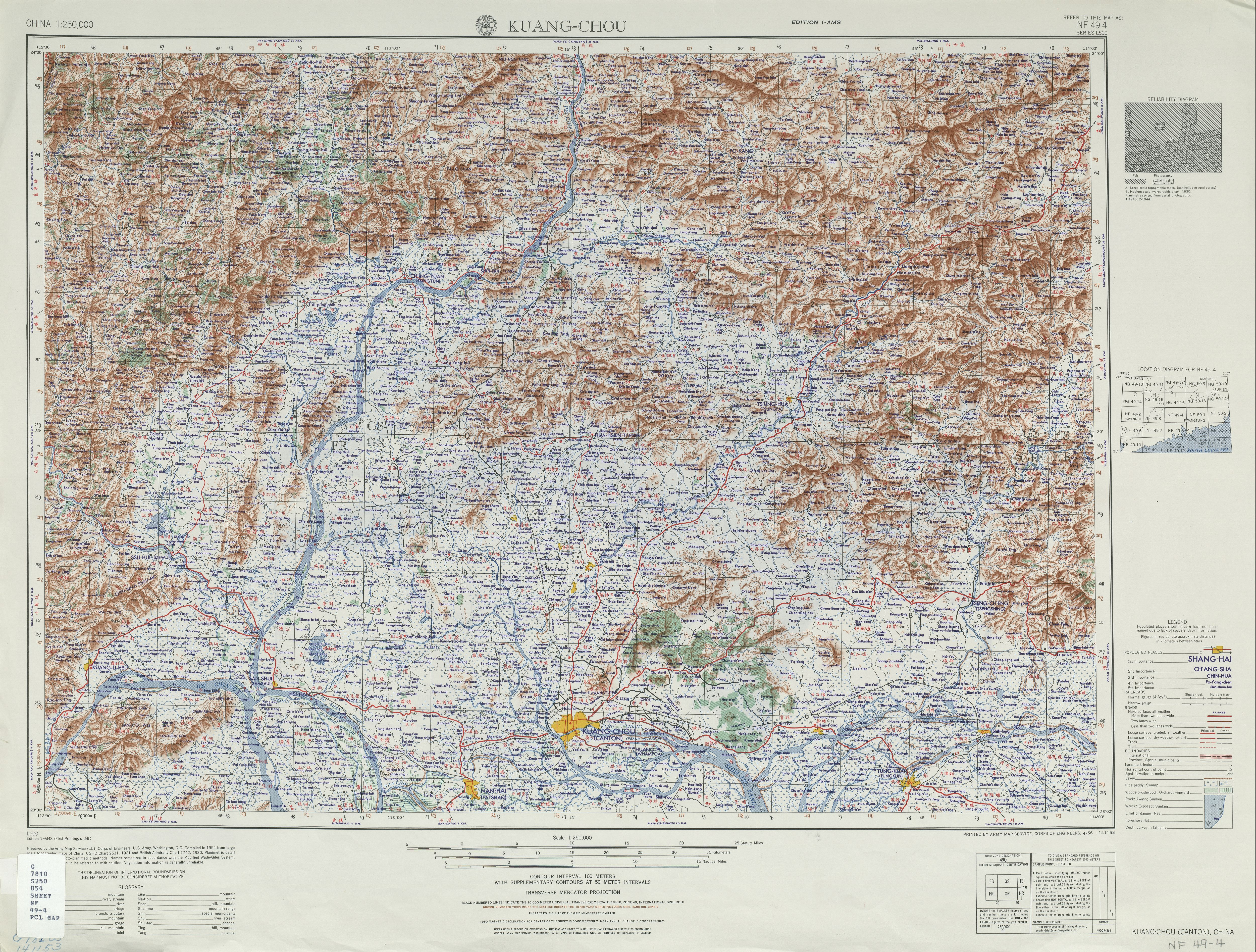 China AMS Topographic Maps